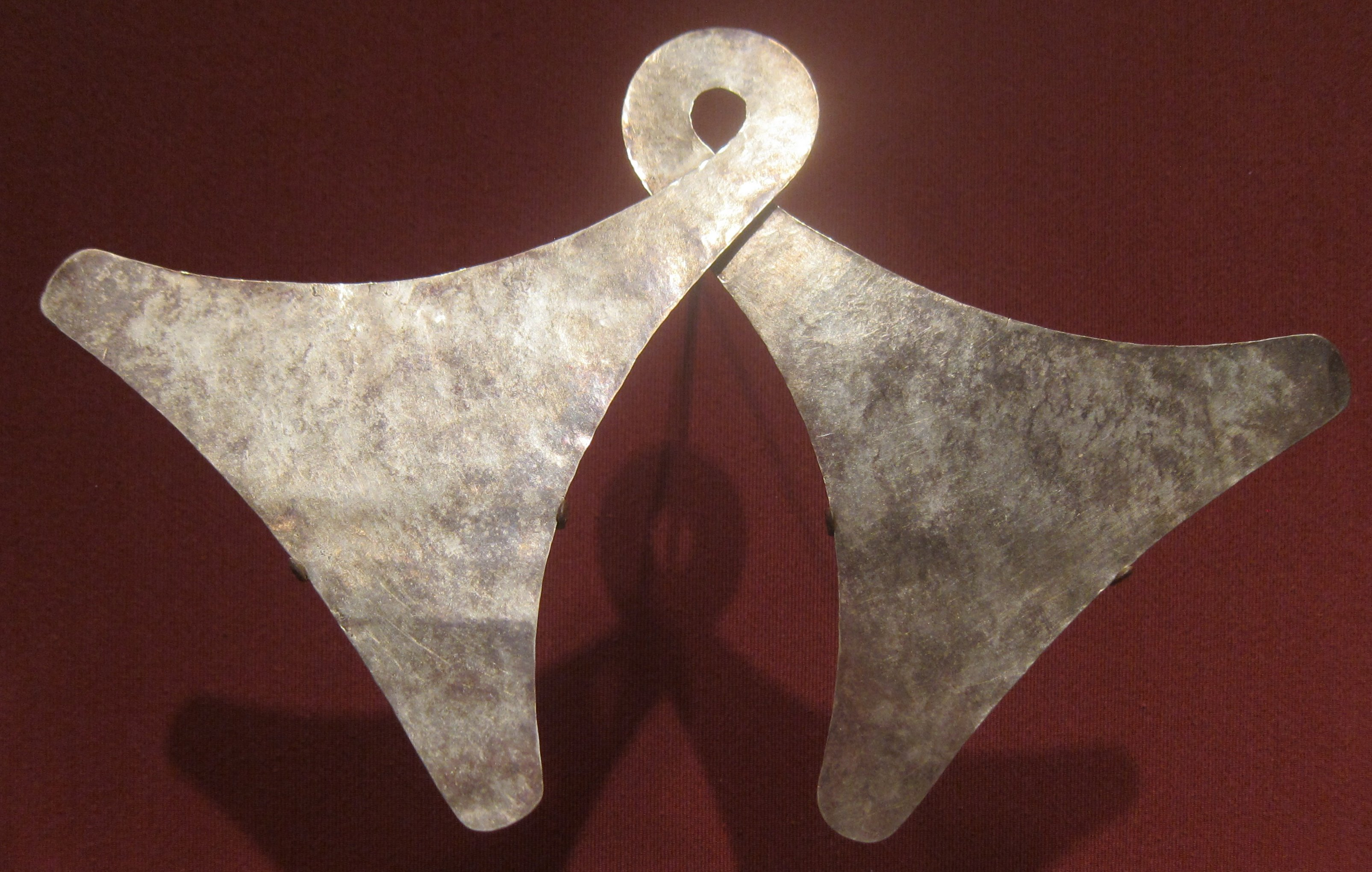 Royal Ceremonial Pectoral (morangga), Lesser Sunda Islands, West Sumba Island, 19th century, gold alloy, Honolulu Academy of Arts